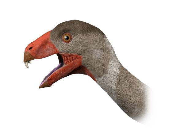 Life reconstruction of Incisivosaurus gauthieri